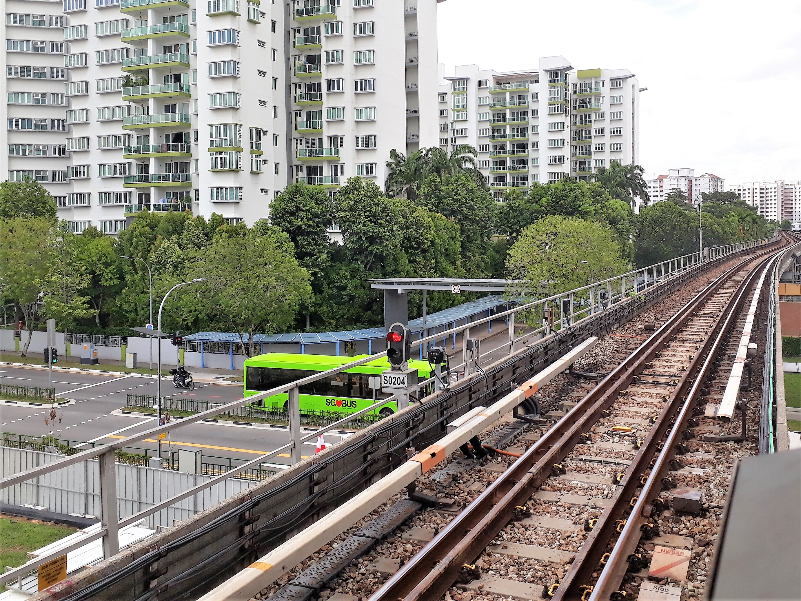 Tracks leading out of CCK